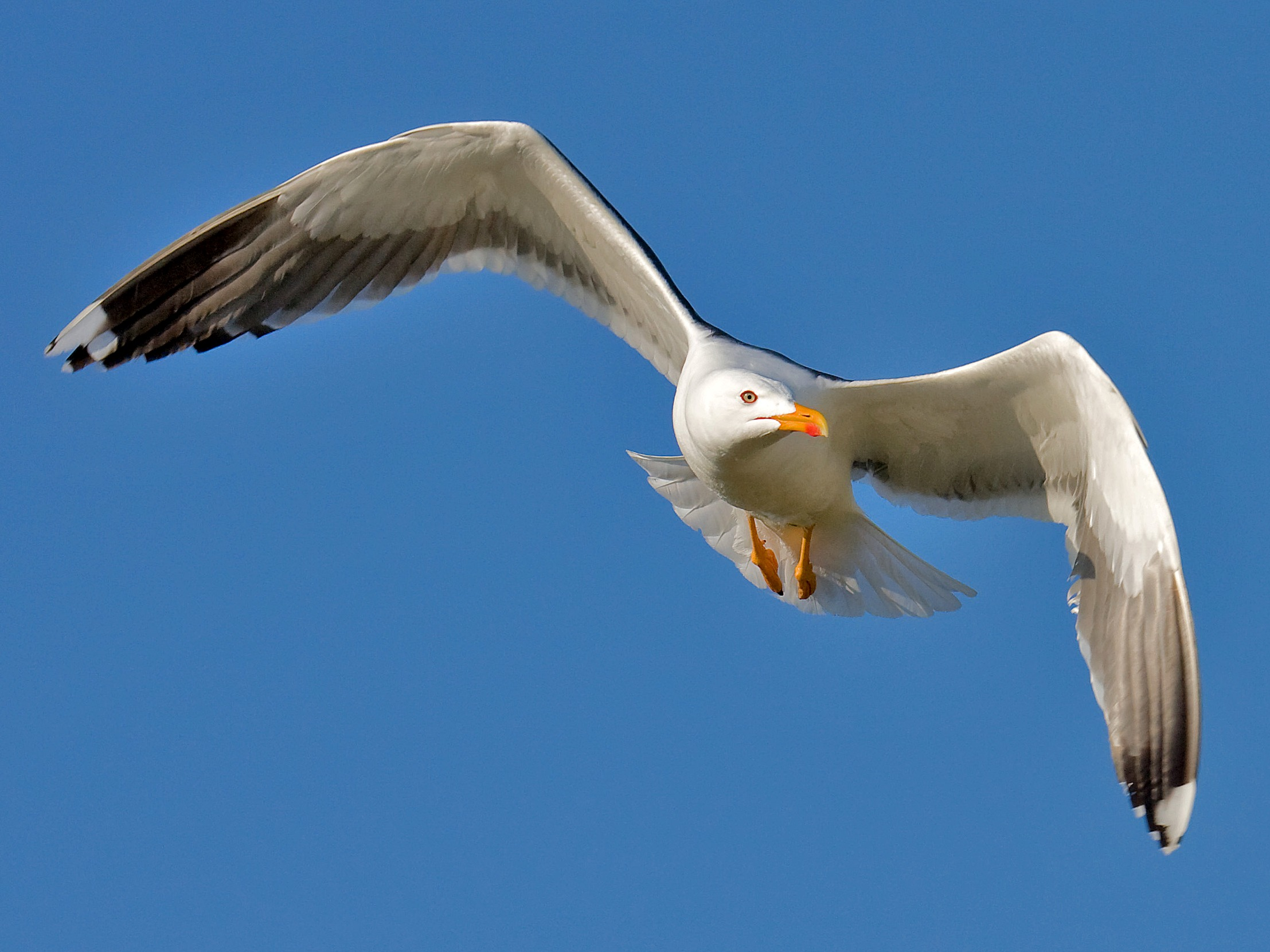 Lesser Black-backed Gull